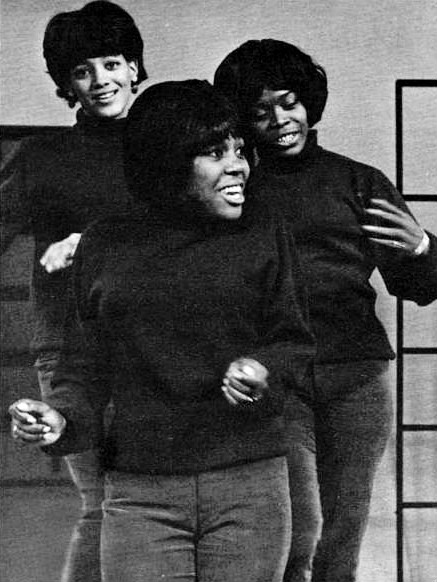 Photo of the 1960s girl group, The Toys.